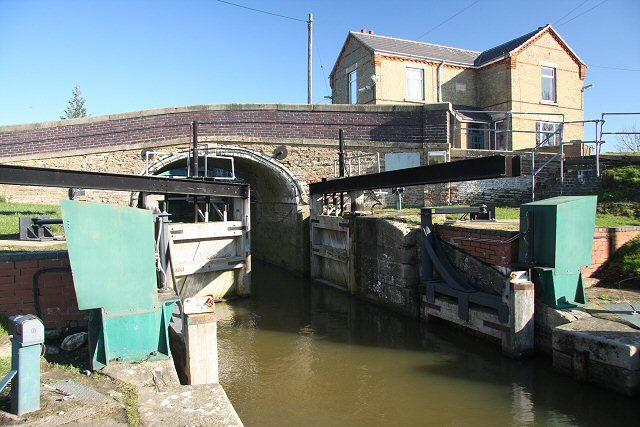 Salters Lode lock This lock provides access for small craft to the Middle Level Navigation. The lockmaster's house sits above the lock, with a clear view down the tidal River Great Ouse.